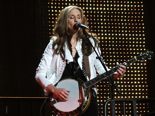 Emily Robison of the Dixie Chicks in Austin, TX.